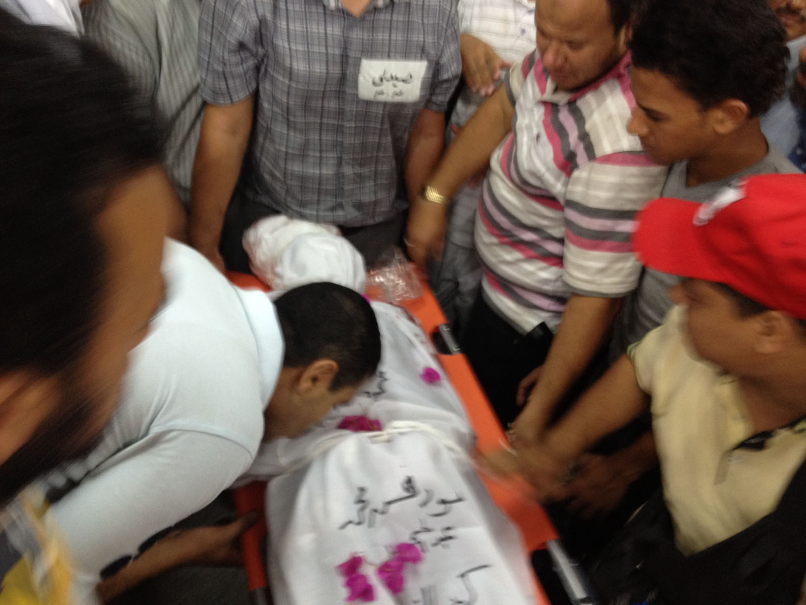 A Morsi supporter kisses the body of a woman killed in early morning clashes with security forces at Rabia el-Adawiya mosque in Cairo, July 27 2013, (Elizabeth Arrott/VOA)